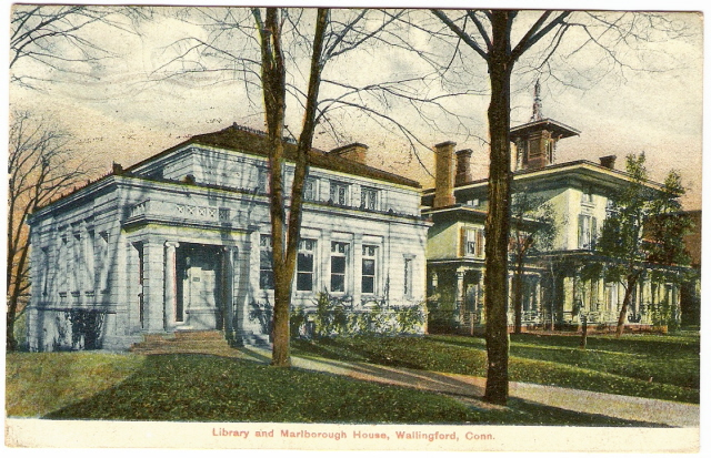 Postcard: Town library and Marlborough House, Wallingford, Connecticut, 1909 postmark